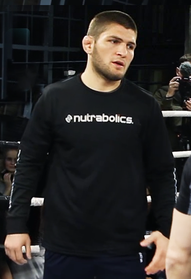 Khabib Nurmagomedov training